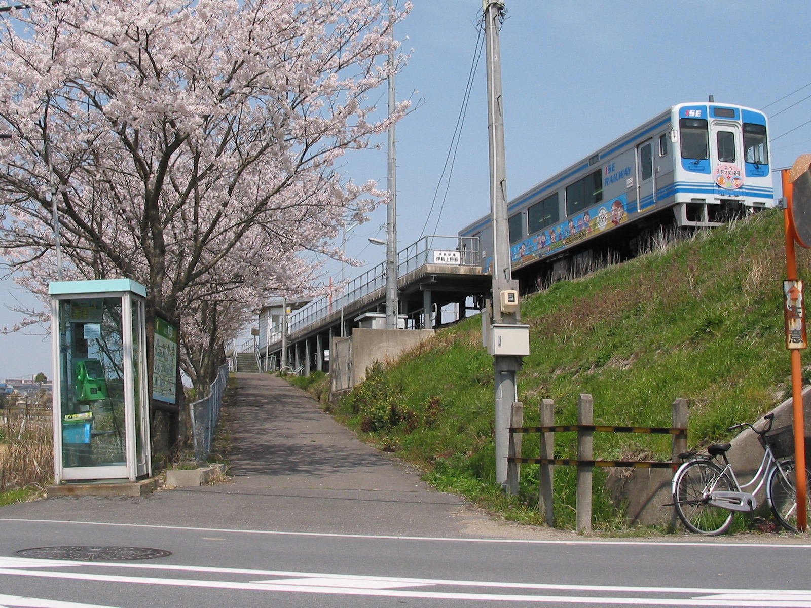 Ise-Ueno Station (railway station on the Ise Railway Ise Line) Place:Ueno Kawage Tsu, Mie Pref. Japan